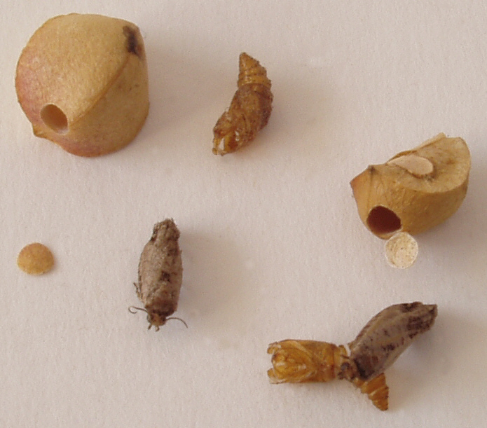 Sebastiania pavoniana, jumping beans with trap door, the hole is about 8 mm deep. On one the door is separated on the other the door is still on the bean. Both are about 10 mm. And also the 2 jumping bean moths or Cydia deshaisiana as well as their pupal casings